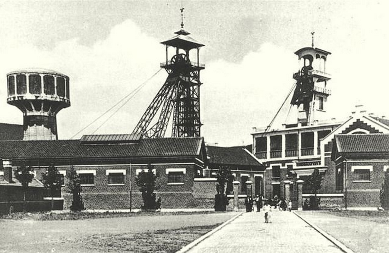 Coalpits n° 3 - 3 bis, Compagnie des mines de Lens, Liévin, Pas-de-Calais, France.